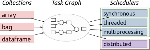 resuming behavior of Python's Dask library